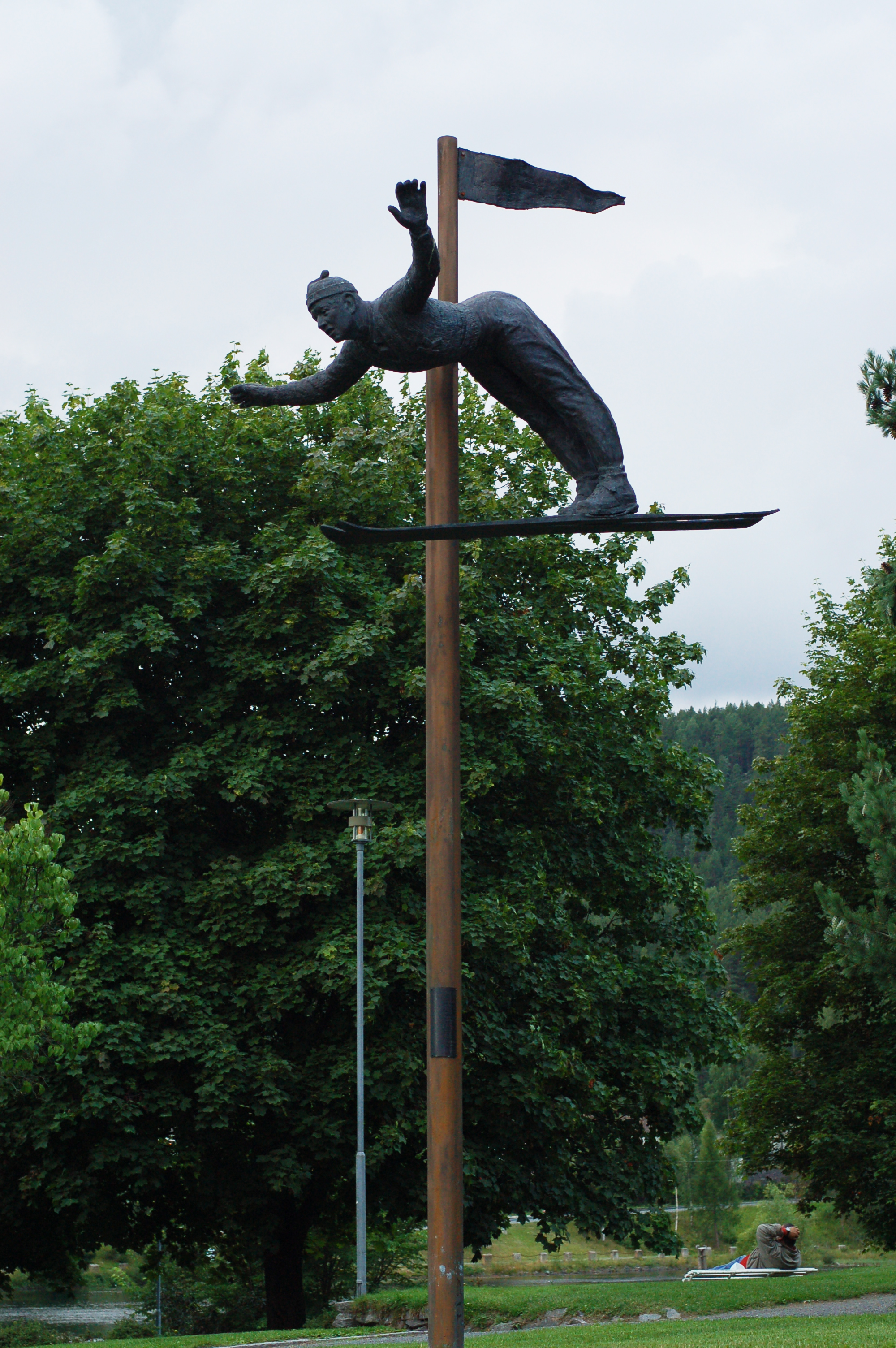 Statue of Birger Ruud in Kongsberg. Photo: Thomas Bjørndahl